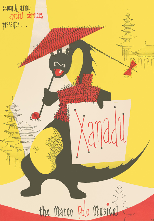 Poster of Xanadu The Marco Polo Musical. Personally owned by William Perry.